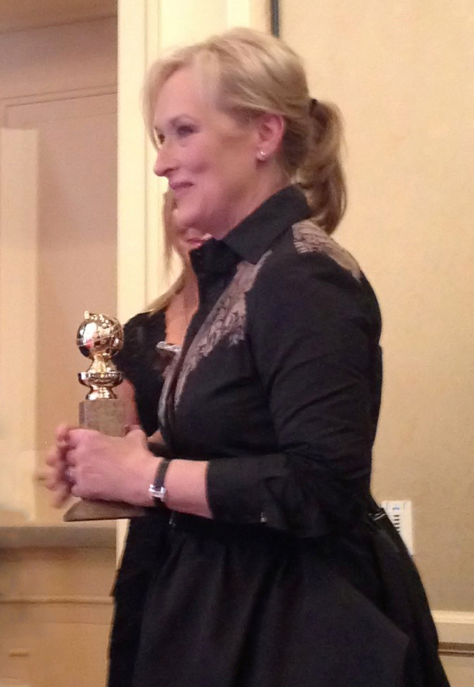 Meryl Streep on the 69th Annual Golden Globes Awards